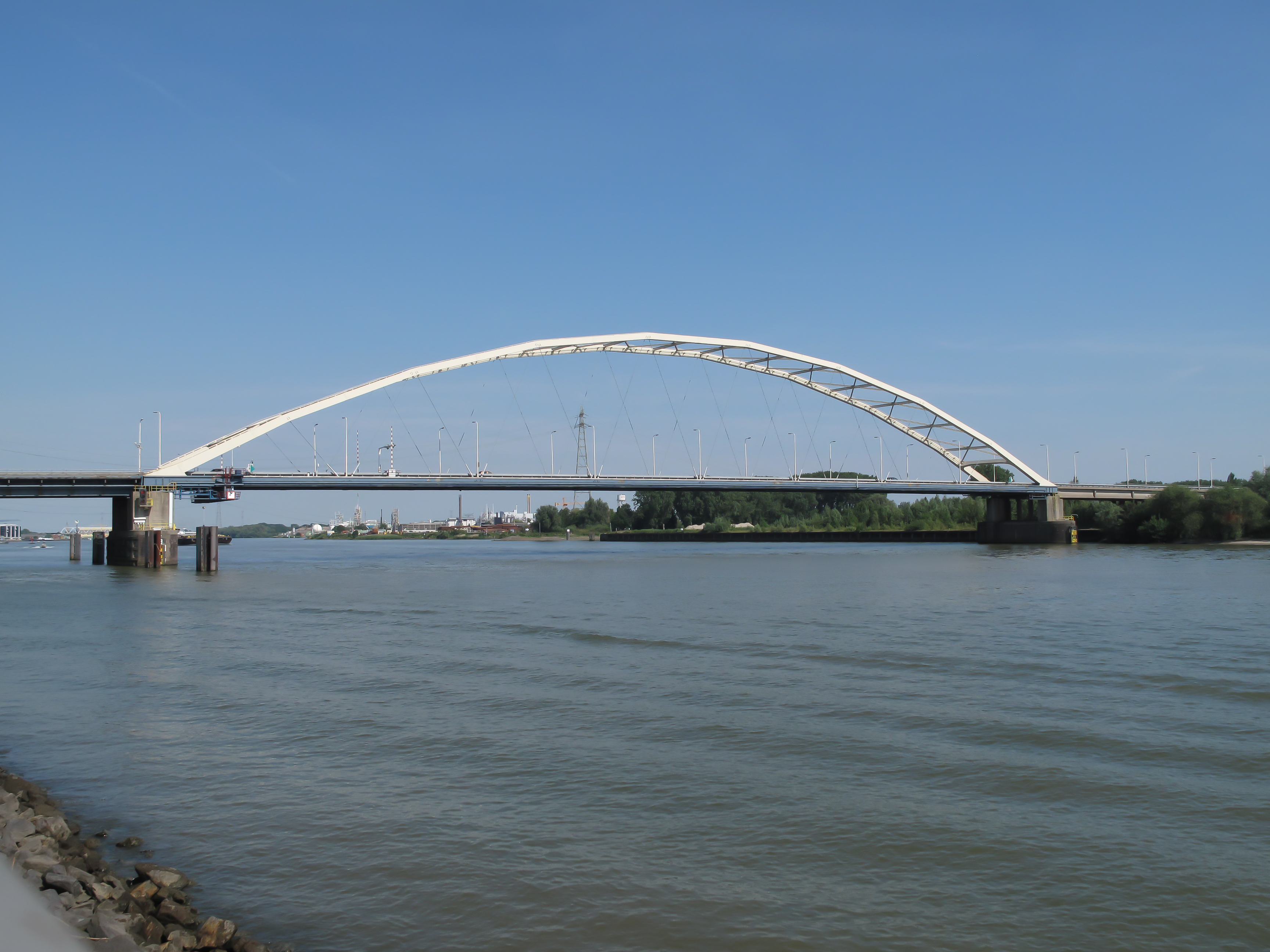 Papendrecht, bridge between Papendrecht and Dordrecht